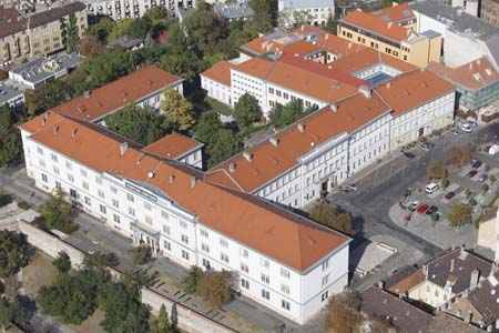 Buda castle, Museum, aerial photography, Hungary